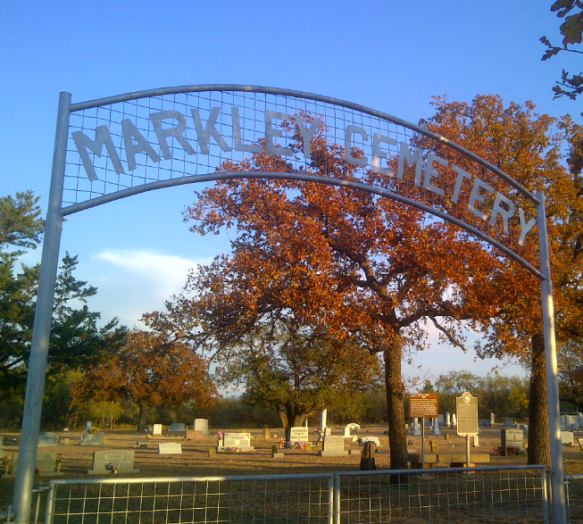 Markley, Texas Graveyard